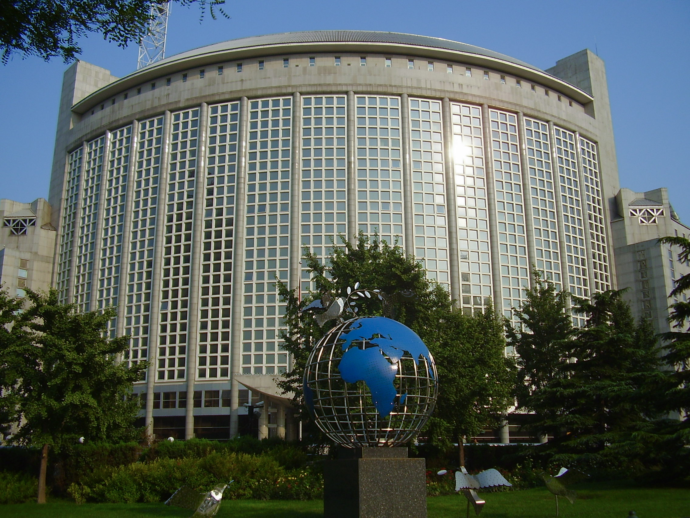 Ministry of Foreign Affairs of the People's Republic of China headquarters - No. 2, Chaoyangmen Nandajie, Chaoyang District, Beijing, 100701